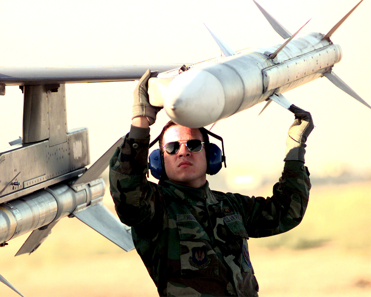 An AIM-120 AMRAAM being loaded onto an F-16CJ by Senior Airman Hector Huguet.